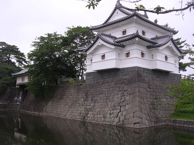 the Tatsumi-yagura tower(rebuilt)